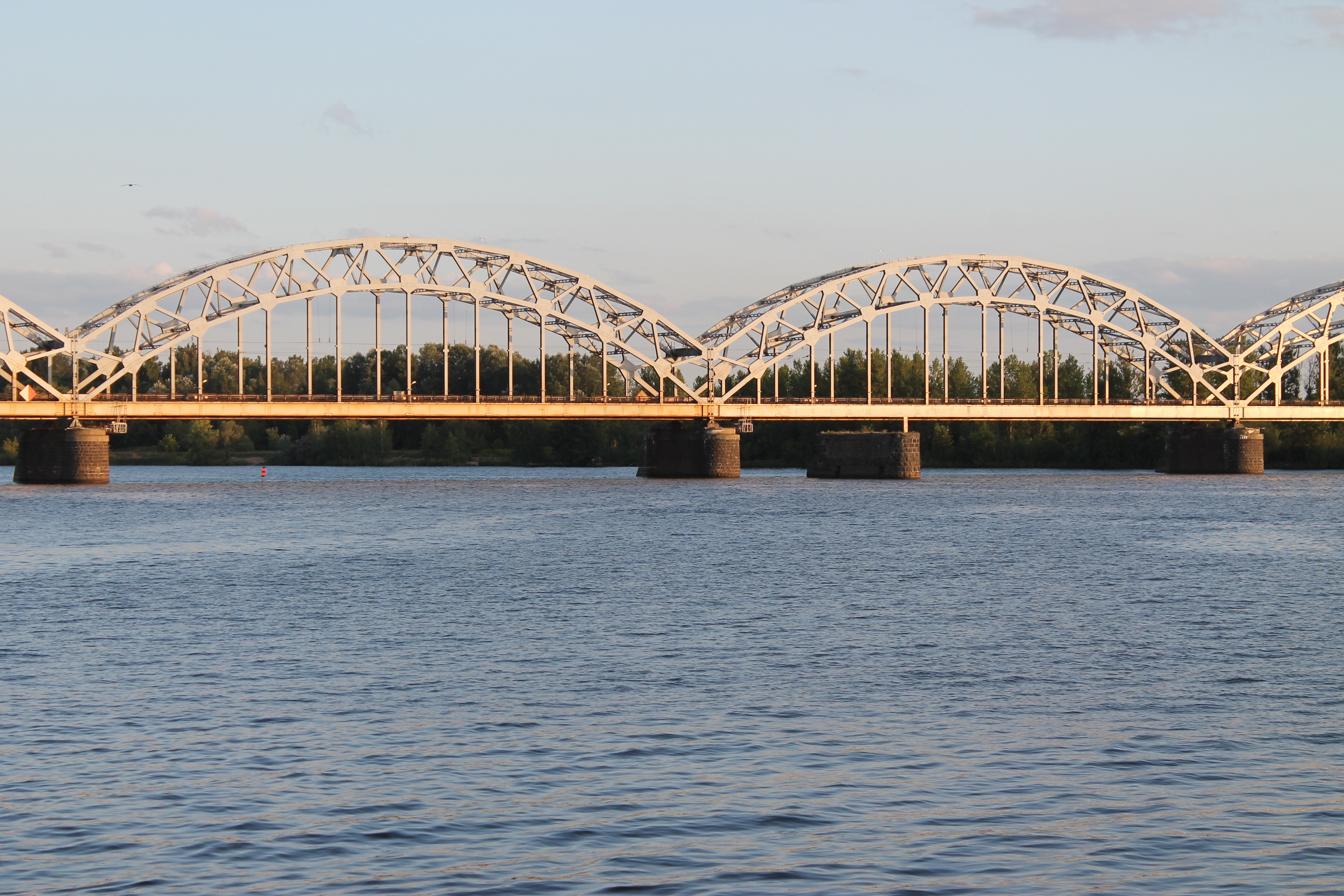 Bridge on Daugava River